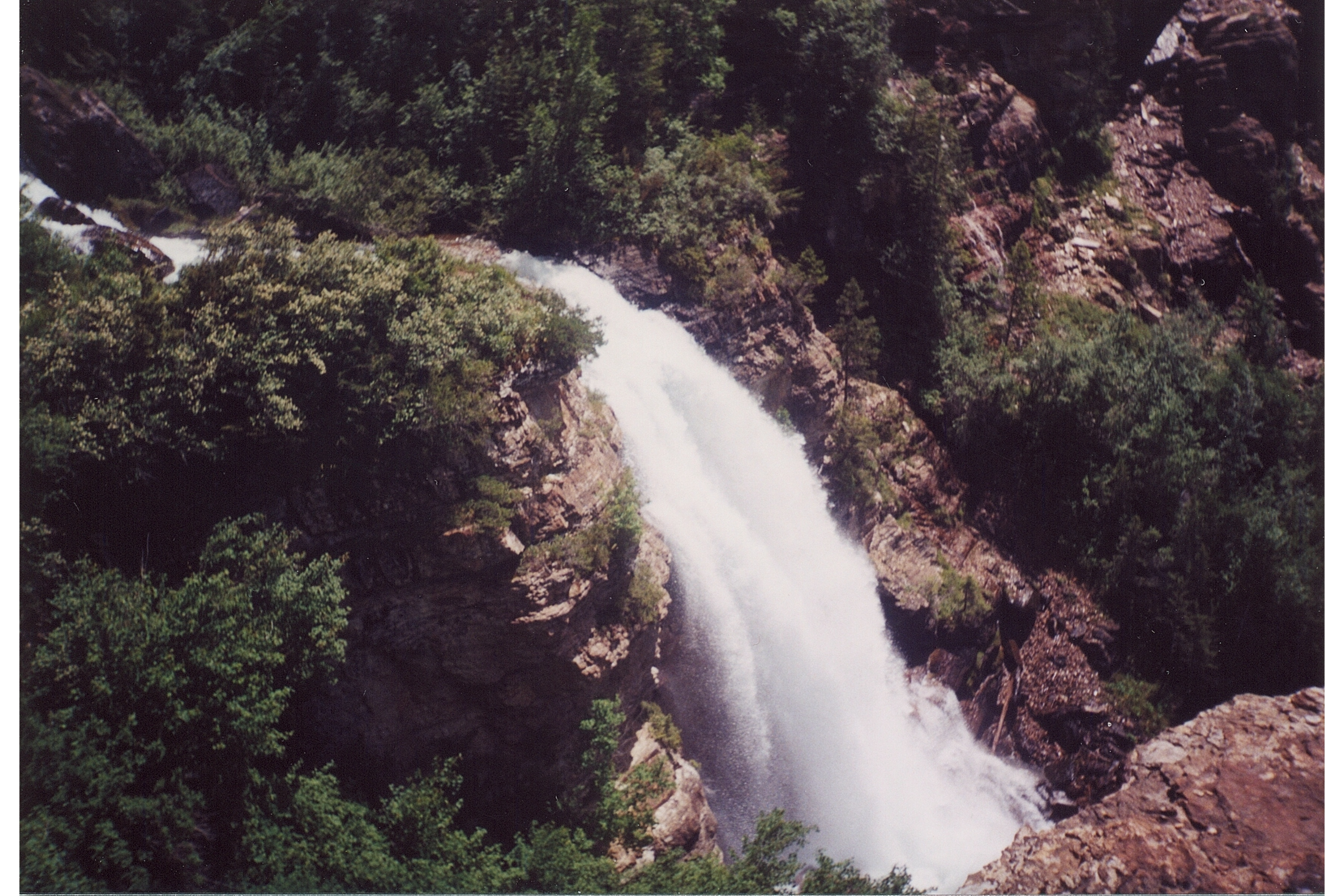 Elizabeth Falls plunges 1,000' on the western slope of the Mission Mountains, Montana. Photo taken summer 2000 by John David Stutts.